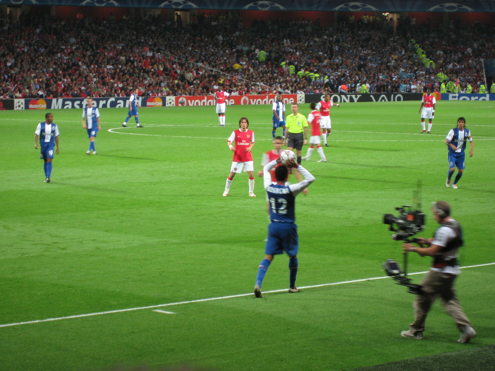 Still Trying To Fix The Damn Camera